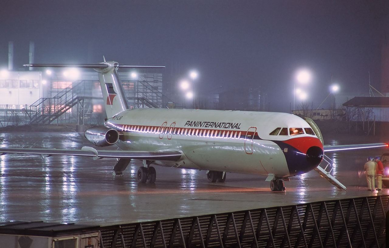 Crashed 06/09/71. Shortly after take-off from Hamburg both engines quit. A forced landing was carried out on the Hamburg-Kiel Autobahn. The aircraft collided with a bridge, causing both wings to be sheared off. The 1-11 burnt out.